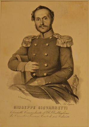 Portrait of the Italian colonel Giuseppe Giovannetti (1788-1848)